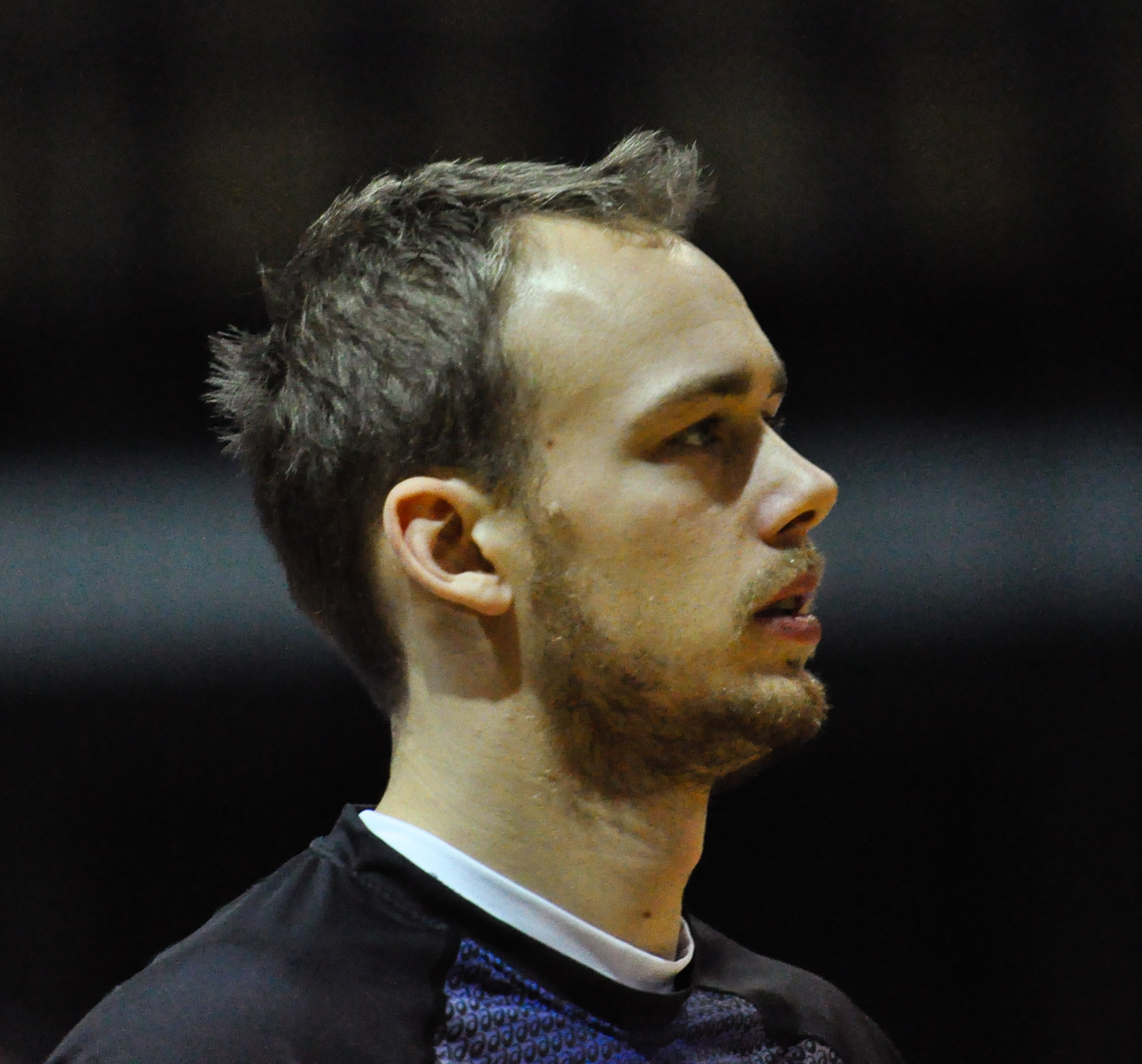 taken on February 8, 2014 during DKB Handball-Bundesliga match between HSG Wetzlar and HSV Hamburg